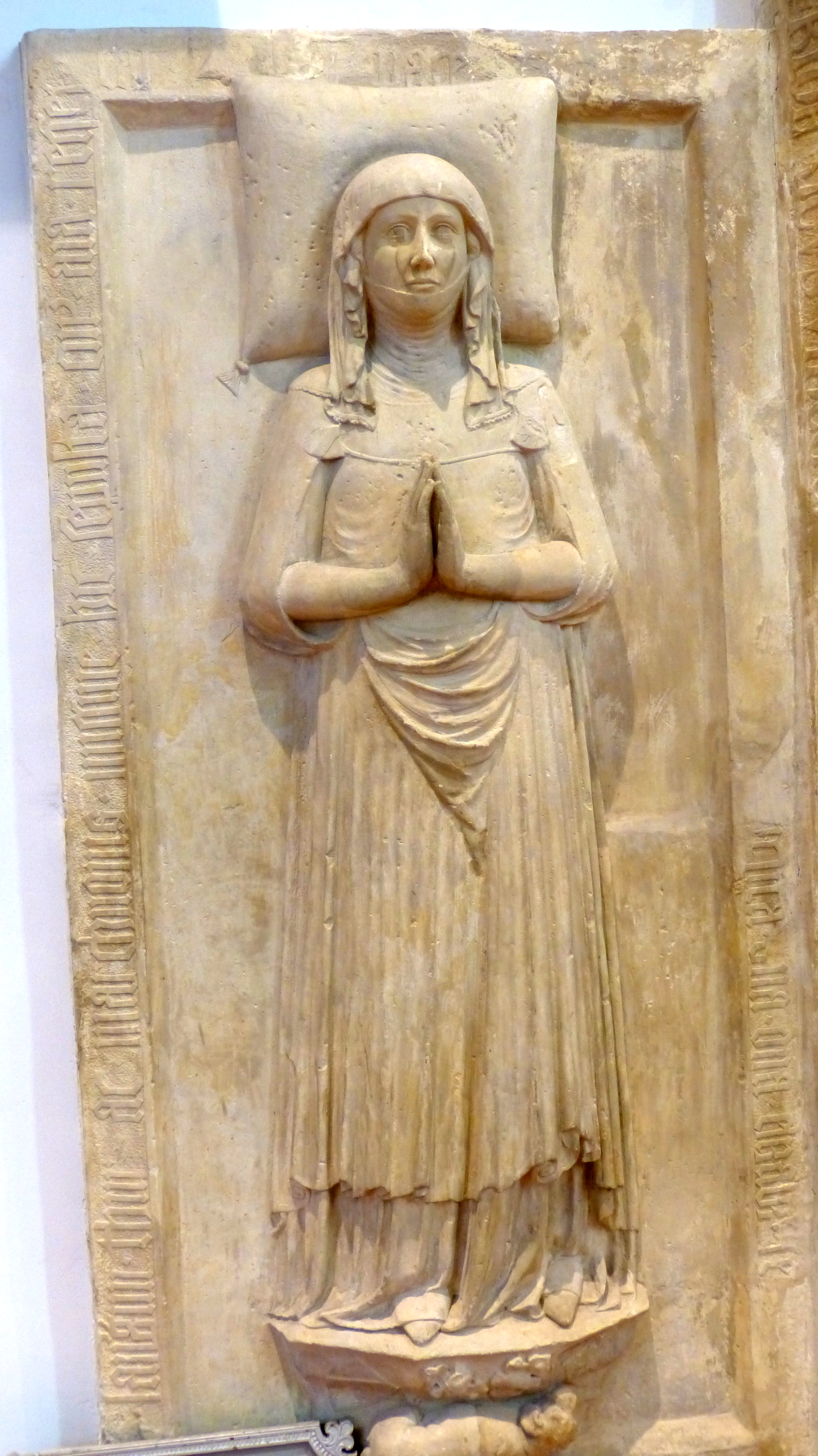 Eisenach ( Thuringia ). Saint George parish church - Grave monument ( 14th century ) for Elisabeth von Arnshaugk ( + 1359 ), wife of count Frederik the Brave of Thuringia.